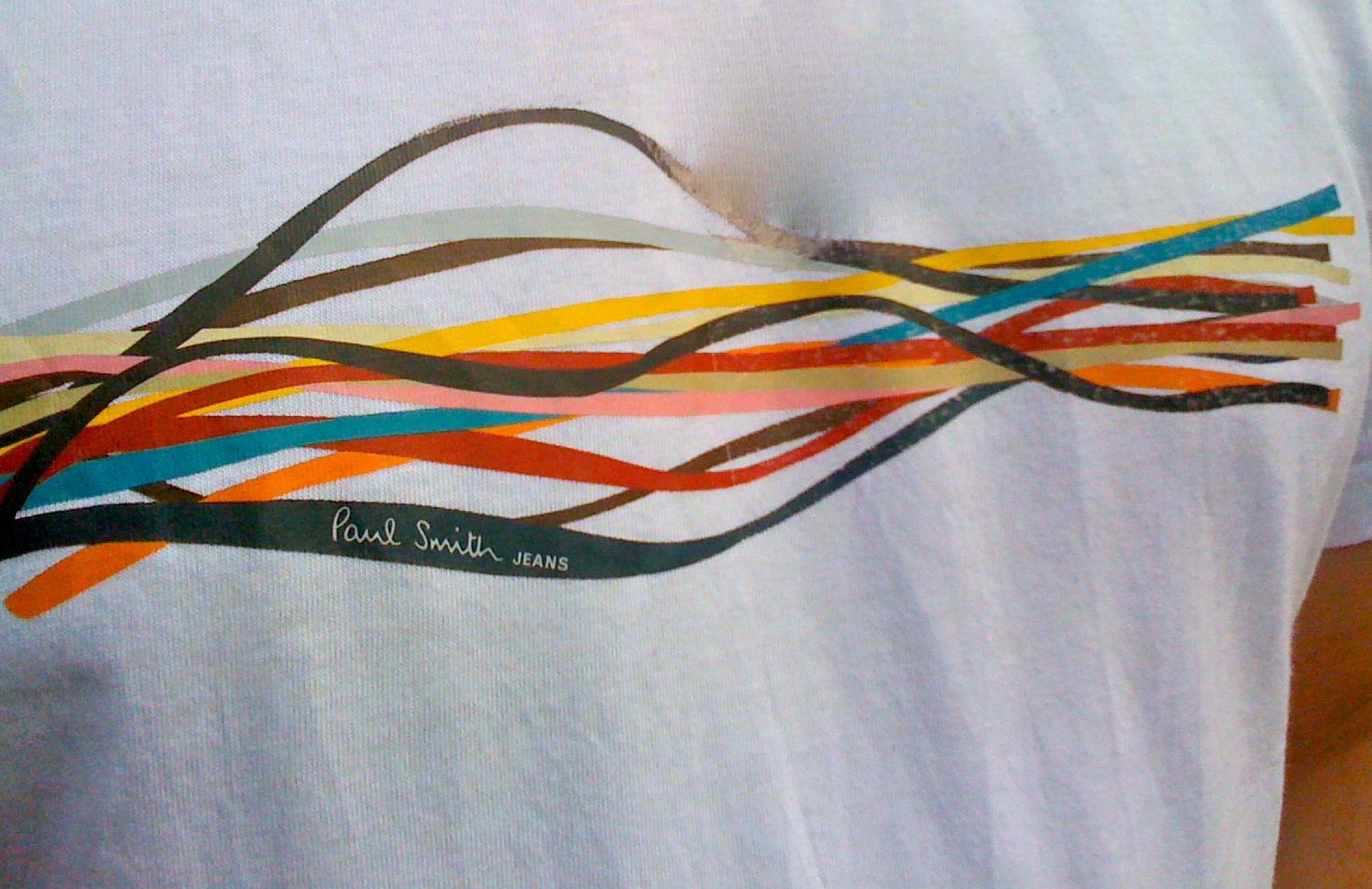 A t-shirt from the Paul Smith Jeans casual-wear range.